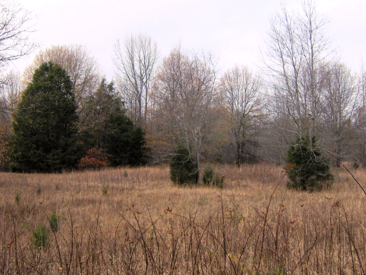 The Mound 14 Sector at Pinson Mounds State Archaeological Park in Madison County, Tennessee, located in the Southeastern United States. Archaeologists uncovered evidence of a Late Woodland period "wall-trench" house in this sector in the early 1960s.